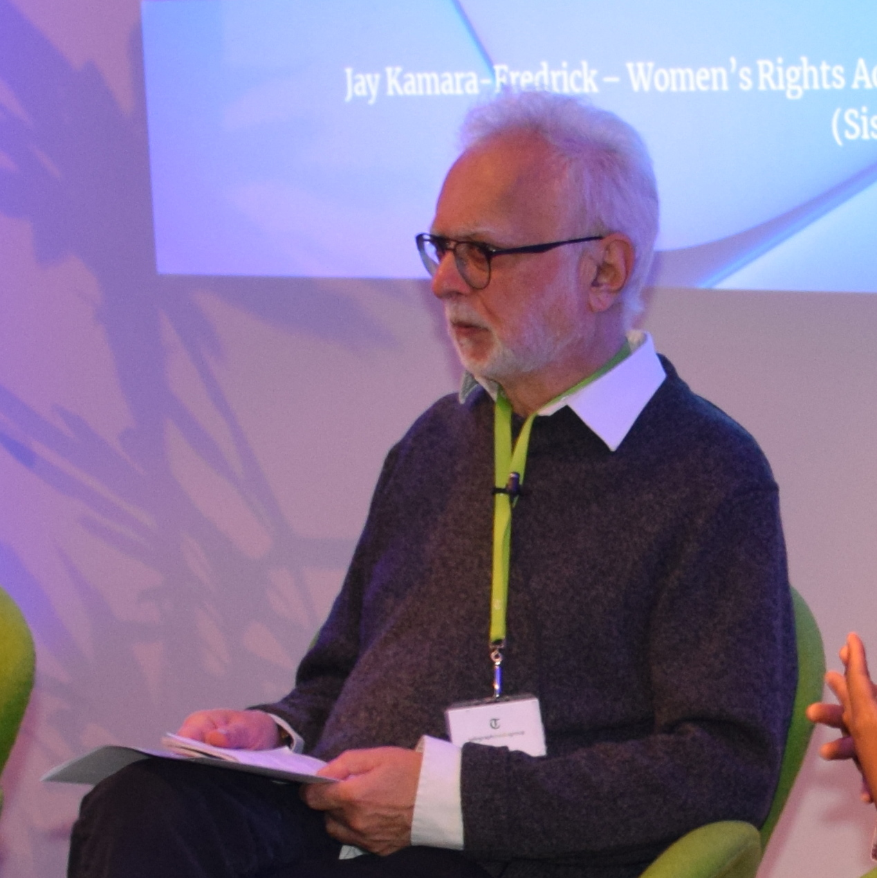 Inclusion Convention Institutional Sexual Harassment London with Farrukh Dhondy Homayra Sellier Dr Diahanne Rhiney and Jay Kamara-Fredrick